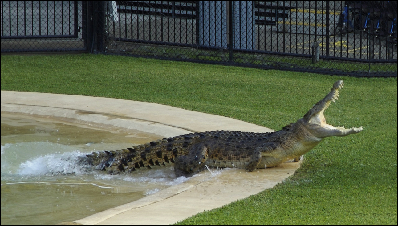 Saltwater Crocodile (Crocodylus porosus) תנין הים Australia Zoo is located in the Australian state of Queensland on the Sunshine Coast near Beerwah/Glass House Mountains. It is owned by Terri Irwin, who is the widow of Steve Irwin, whose wildlife documentary series The Crocodile Hunter made the zoo a popular tourist attraction. Although best known for the crocodiles and the live crocodile feedings, the zoo is also known for featuring exhibits of other Australian wildlife, including koalas, wombats, Tasmanian devils, snakes, and (until 2006) a giant Galapagos tortoise called Harriet, who was generally acknowledged as the world's oldest living chelonian when she died on June 23, 2006, at the age of 176.[1] The Zoo also features a smaller selection of animals from around the world, including elephants, tigers, cheetahs and Komodo Dragons, along with a wide range of birds.